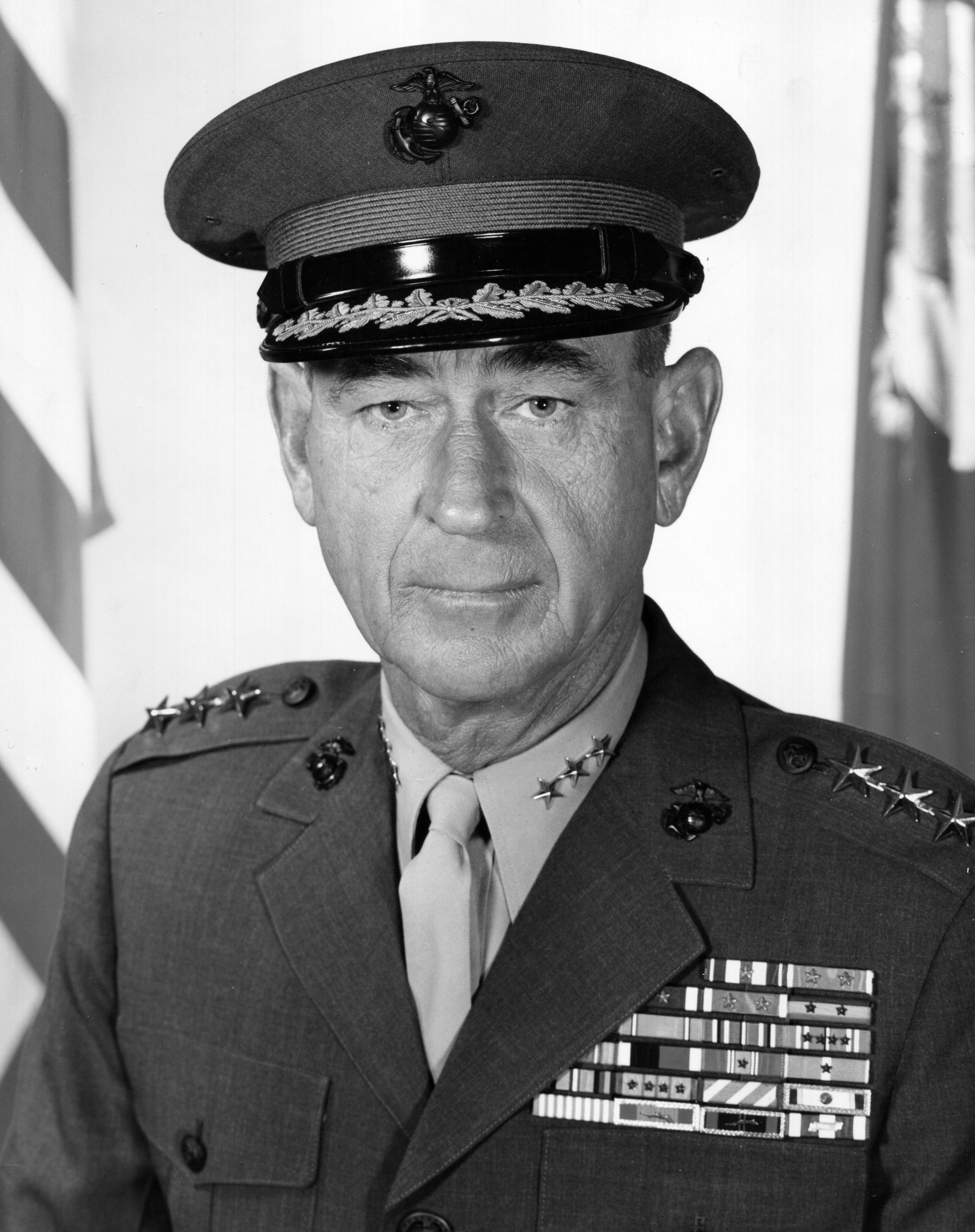 Joseph Charles Fegan Jr. (December 21, 1920 - January 2, 1991) was a highly decorated officer in the United States Marine Corps with the rank of Lieutenant General. A son of Major general Joseph C. Fegan, he received several citations for bravery during three wars and completed his career as Commanding general, Marine Corps Development and Education Command.